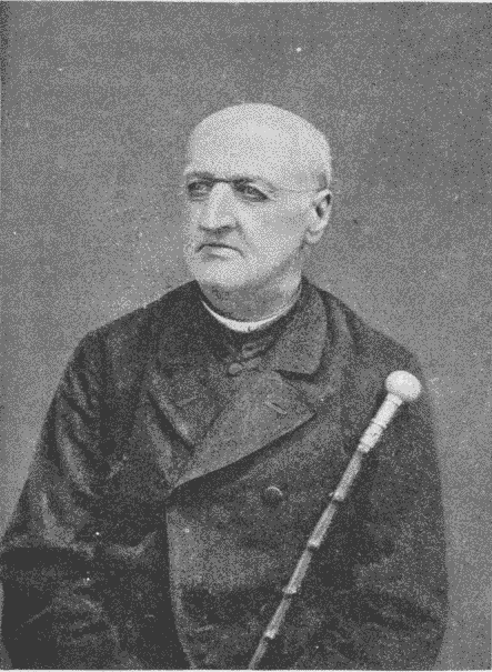 Portrait of Andrej Einspieler, Austrian-Slovenian writer.